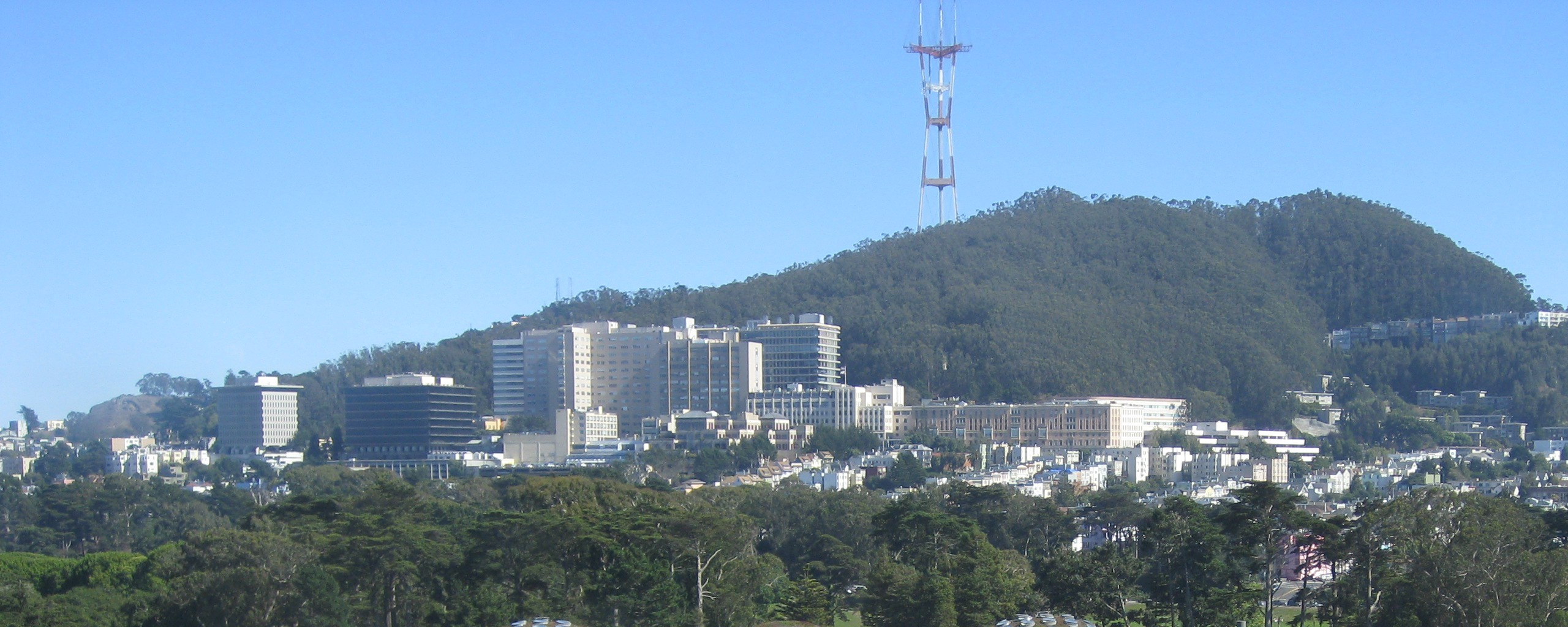 Parnassus Campus of the University of California, San Francisco and UCSF Medical Center — with Mount Sutro and the Sutro Tower rising behind it. Seen from the Academy of Sciences roof in Golden Gate Park.